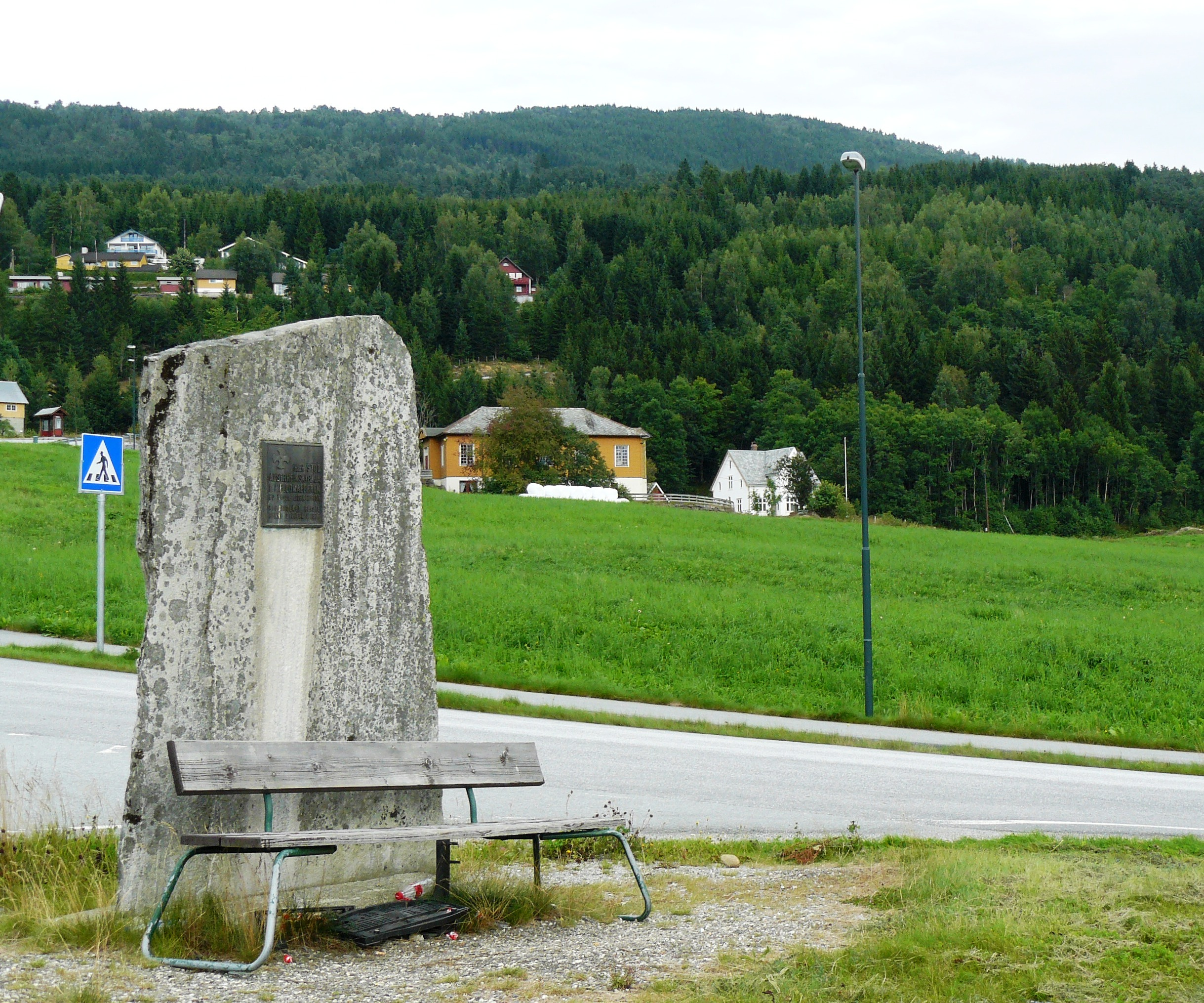 Memorial marking for the former Austrheim church in Gloppen, Sogn og Fjordane, Norway